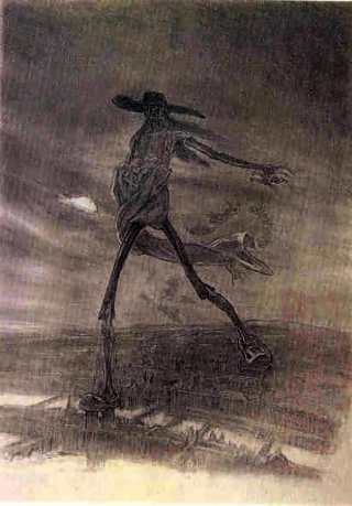 "Satan Sowing Seeds" by Felicien Rops, pencil, around 1872 320px wide